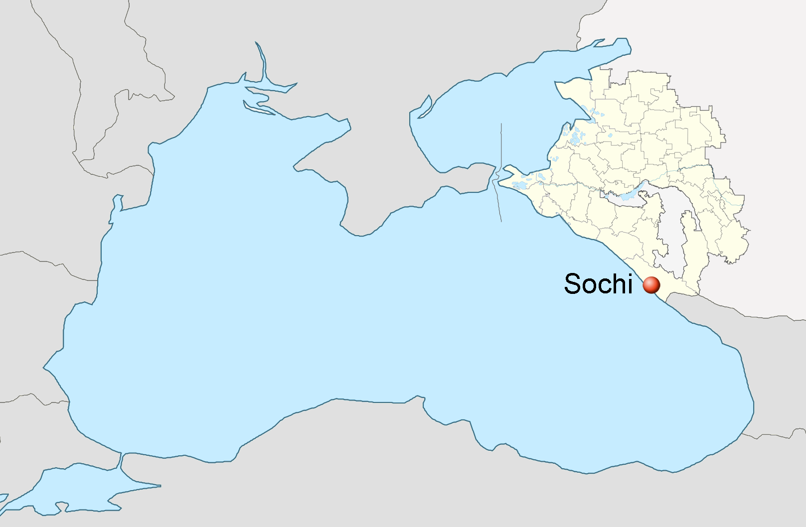 Derived from File:Krasnodarski Krai at Black Sea location map.png